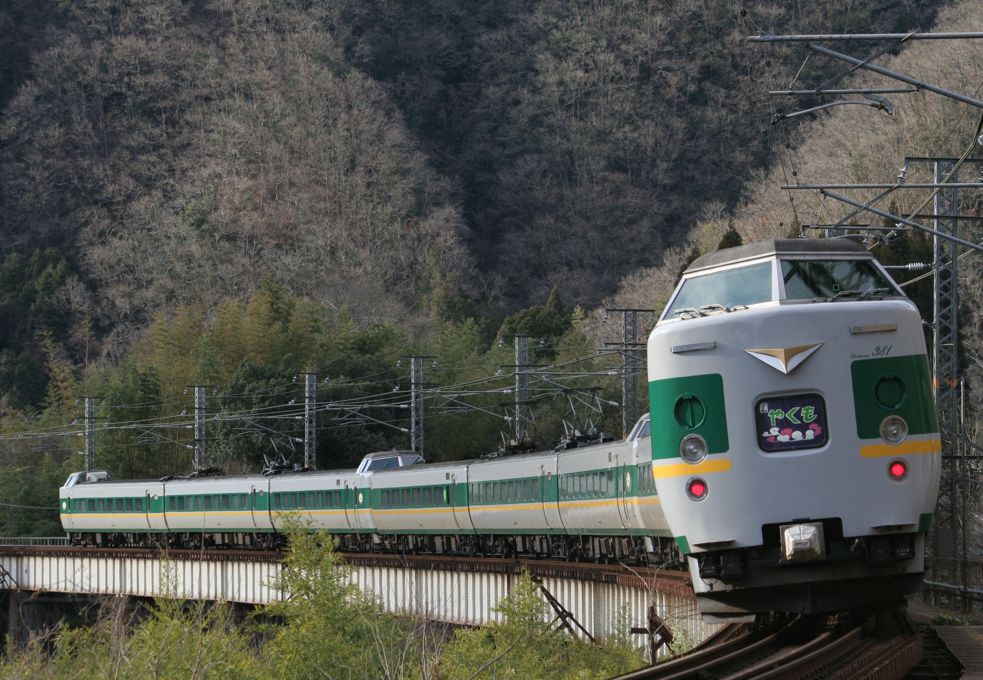 381 series train Yakumo